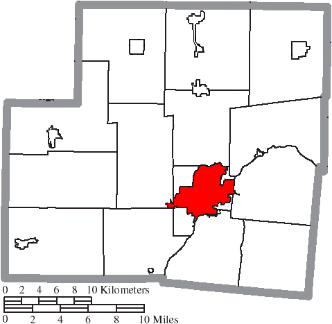 Map of the municipal and township boundaries of Shelby County, Ohio, United States, as of the 2000 census, with the location of the city of Sidney highlighted. Township borders are shown only in unincorporated areas in order to differentiate incorporated and unincorporated areas more clearly.